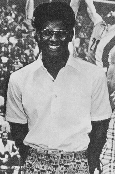 Professional basketball player John Drew in 1974.